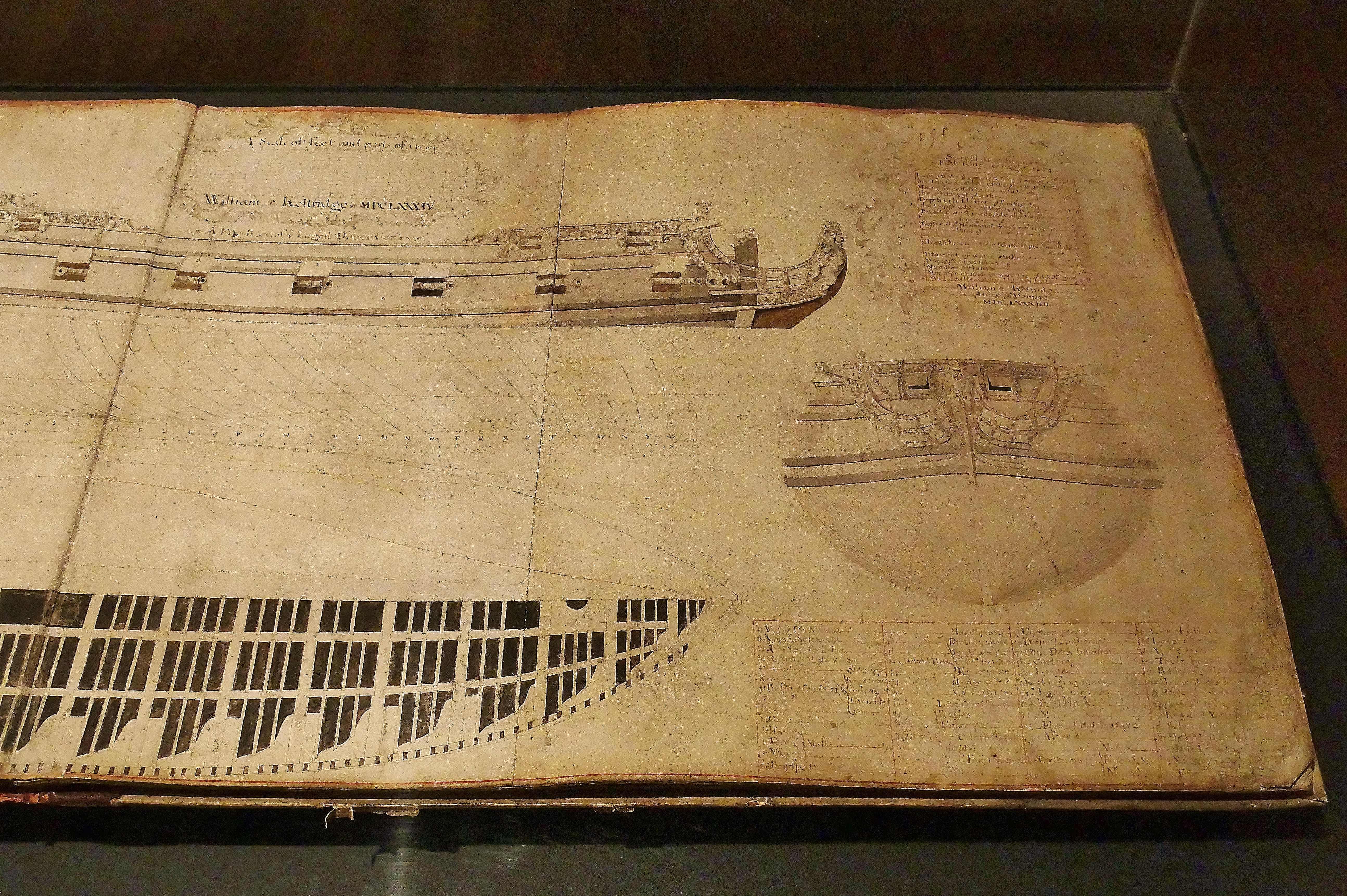 One page of a book on ship hull construction drawings by William Keltridge.